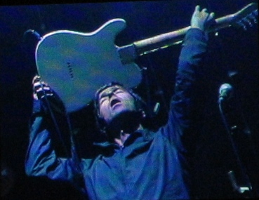 Noel Gallager performing at an Oasis concert at Shoreline Amphitheatre in Mountain View, California, September 11, 2005Oasis Concert.